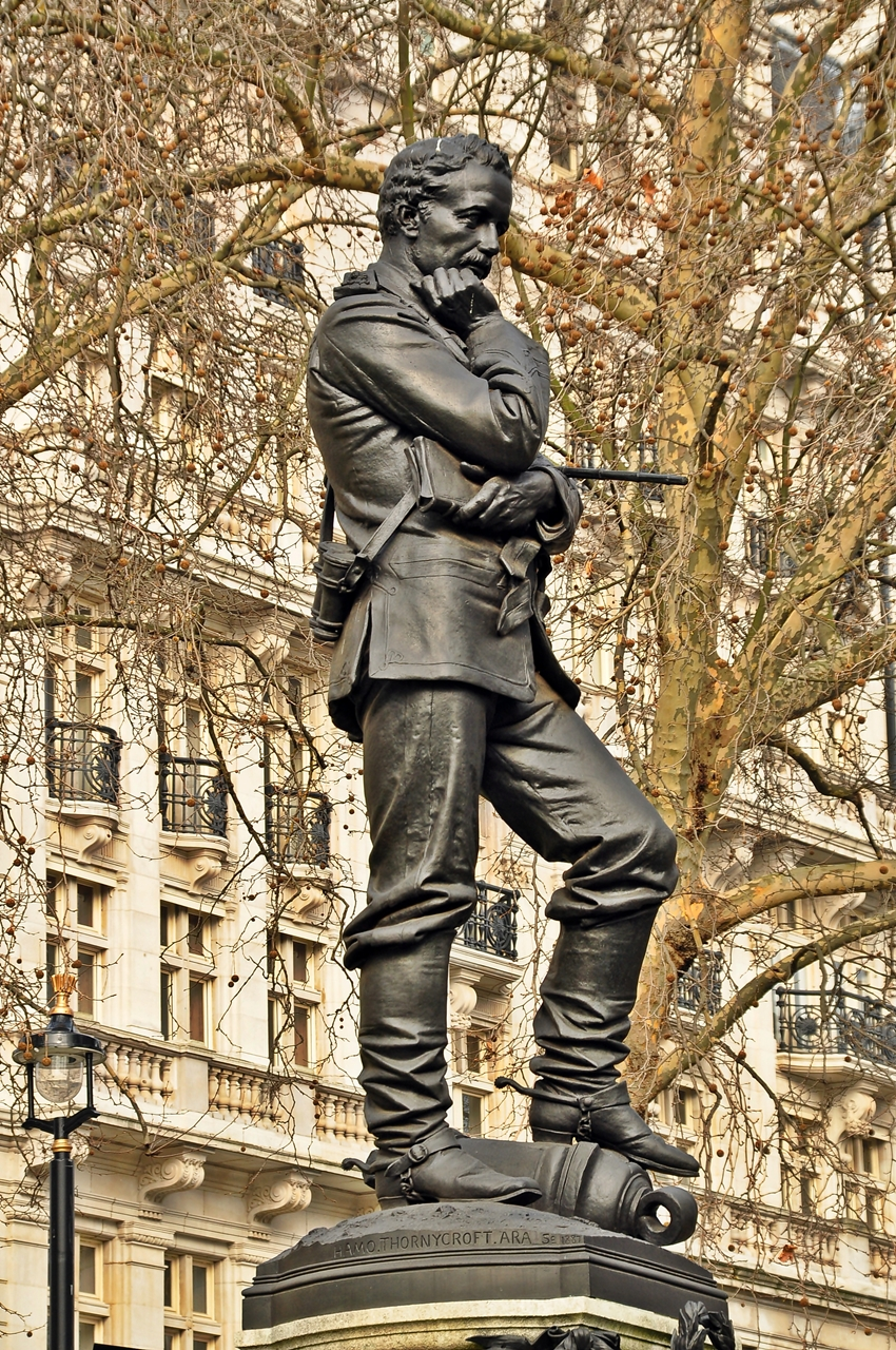 The memorial to General Gordon on the Victoria Embankment, East of the Ministry of Defence